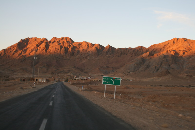 Hafthor village in Yazd, Iran